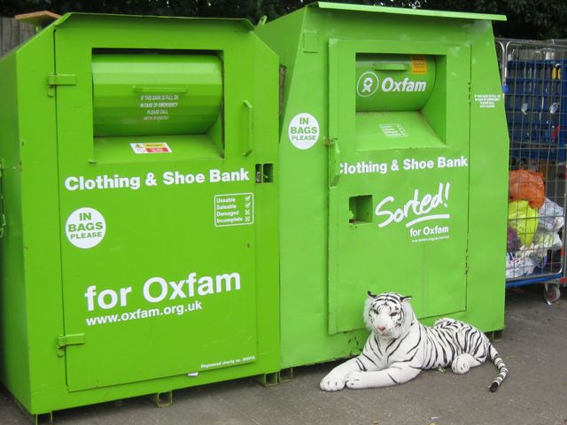 Recycle for Oxfam or you'll be sorted. I must admit that I had to look twice. This is quite clearly not one of the huge plush toys you can win at a fairground. The way it is lying with its legs out, head up, and haunches built for a quick spring to the feet if needed, are just what I would expect of a member of the cat family of this size. Perhaps someone considered albino tiger skin counted as clothing and found it was too big to go in the bin. See also 1501298